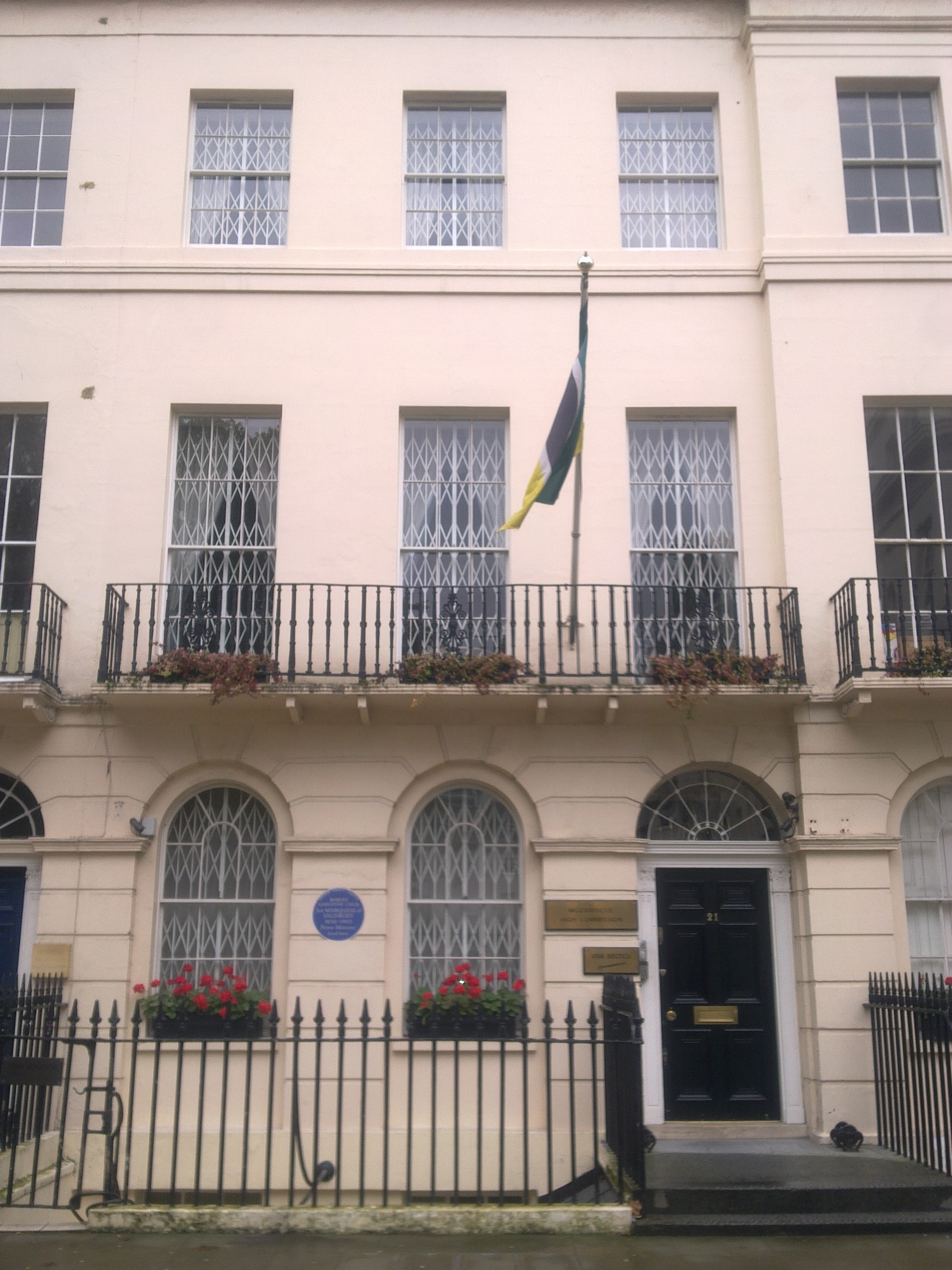 High Commission of Mozambique 1